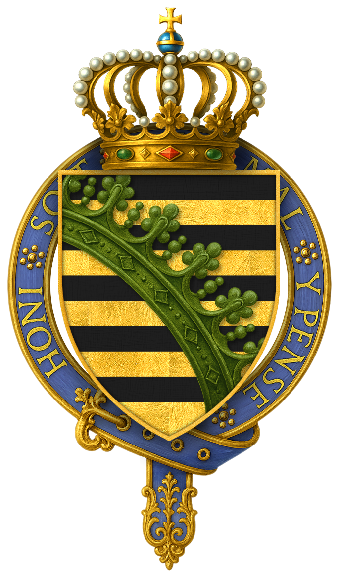 Gartered arms of Frederick Augustus II, King of Saxony